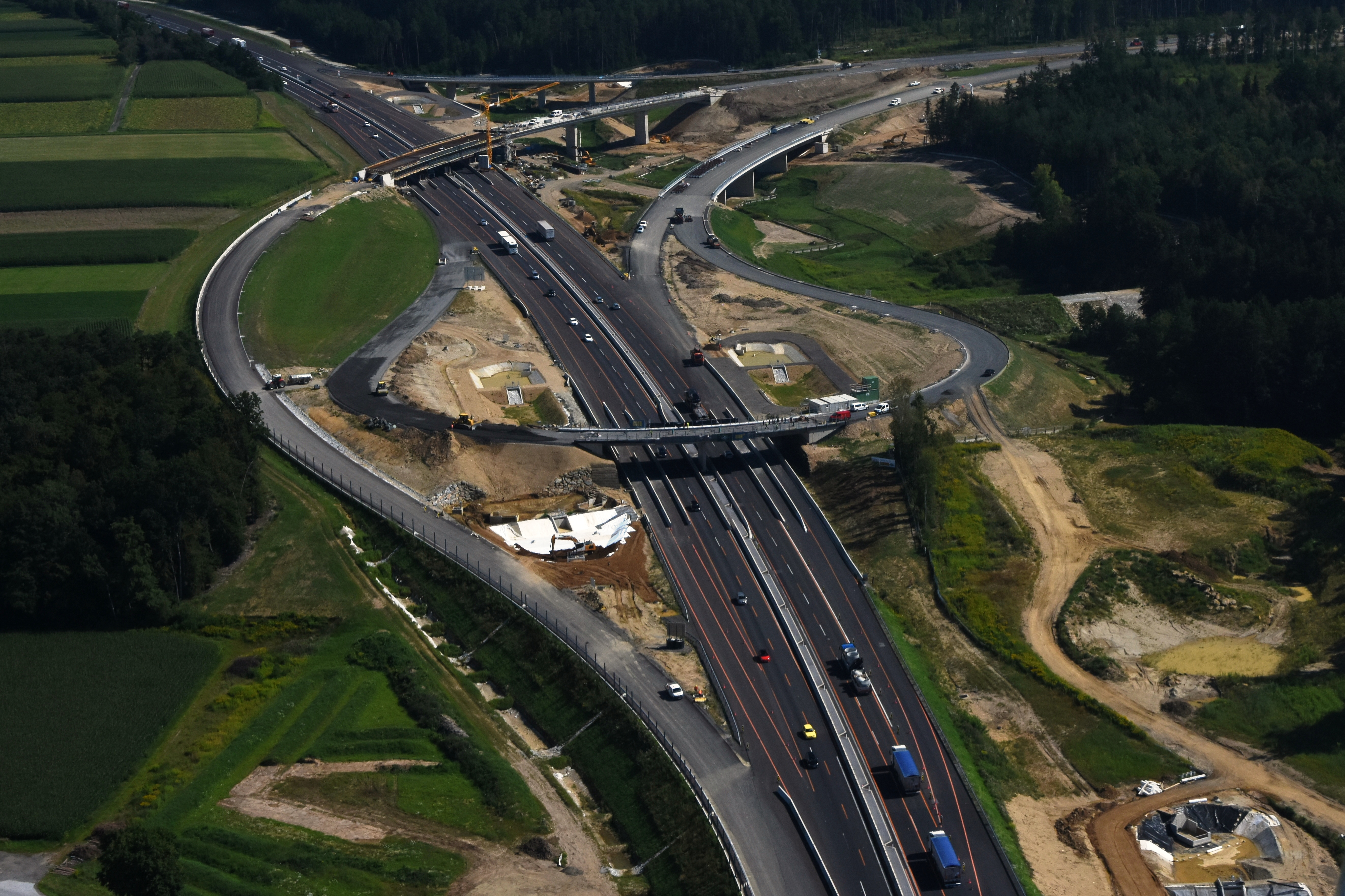 Aerial photographs Fürstenfelder Schnellstraße S7 Knoten Riegersdorf A2